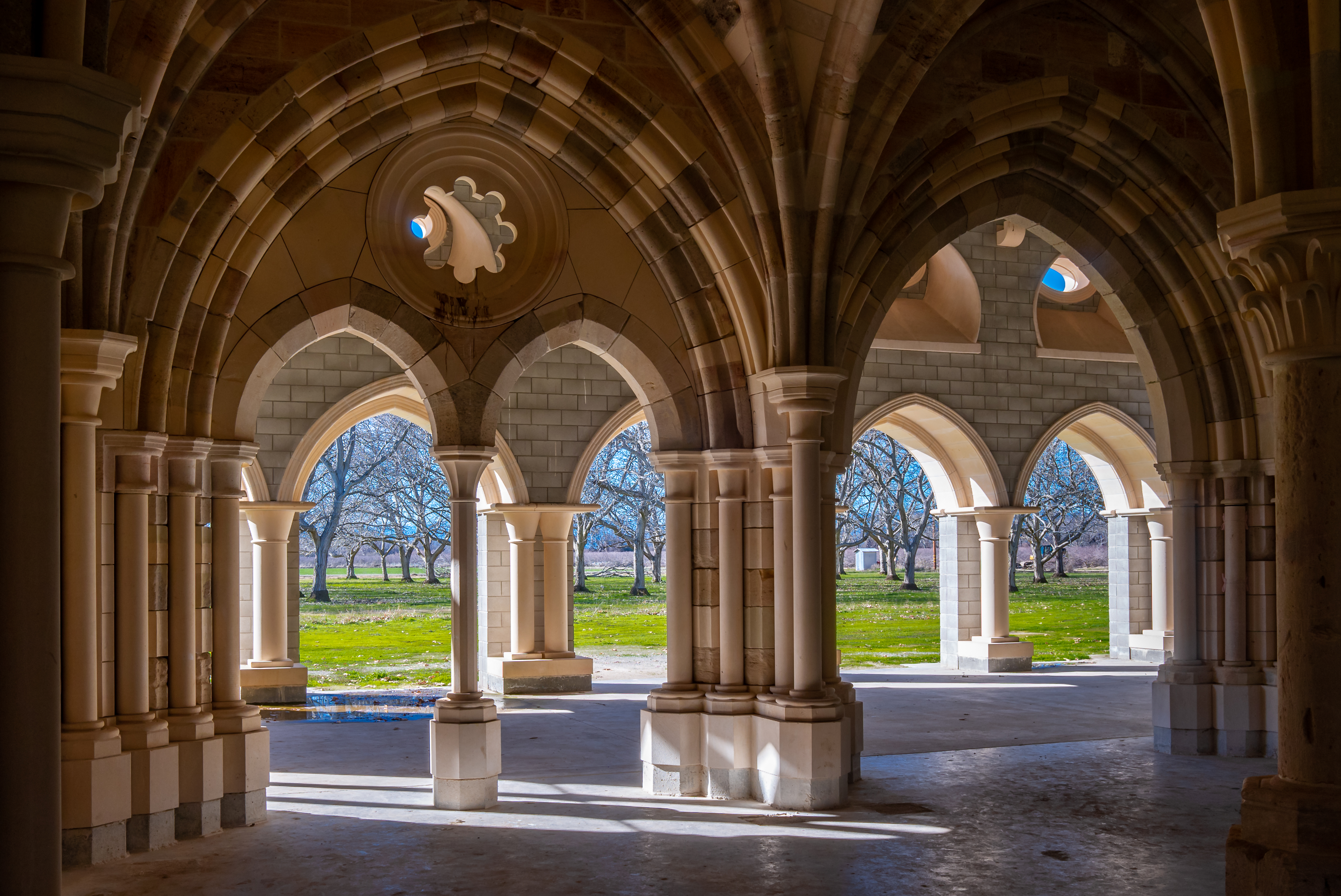 Chapter House of the Abbey of New Clairvaux, Vina, Northern California. The Chapter House was reconstructed with stones that were brought to California by William Randolph Hearst. Hearst had a medieval building in Ovila, Spain, taken down and had the stones shipped to the United States in order to build a castle. After he ran out of money during the Great Depression, the stones ended up in Golden Gate Park, San Francisco. In 1994, the monks started the restoration project "Sacred Stones". They brought the limestone blocks to Vina, a small community northwest of Chico, California. In December of 2011, the final stone was set into the ceiling.